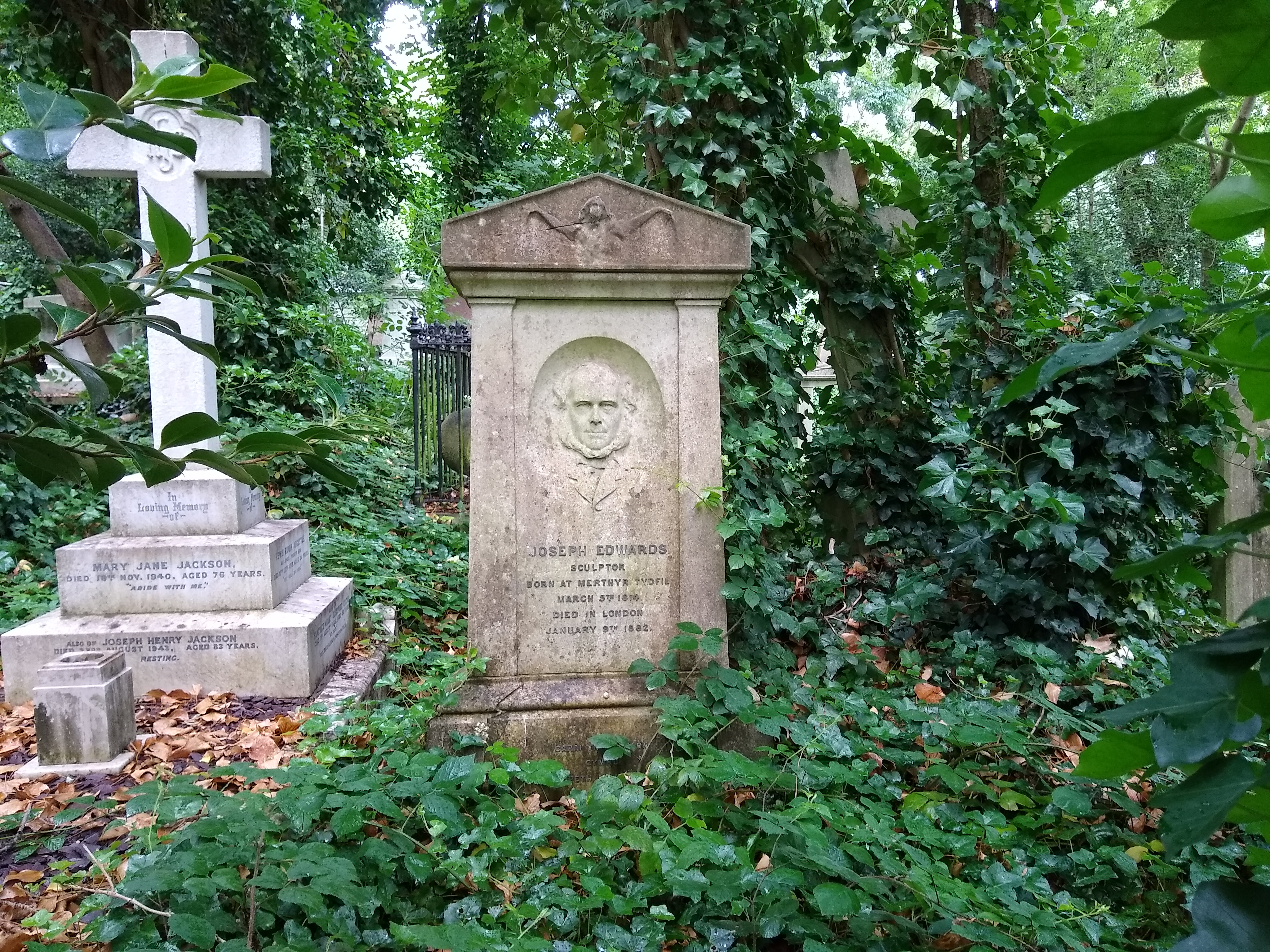 1882 Inscribed marble headstone on a rectangular base. headstone had a fine carved high relief portrait bust flanked by pilasters supporting a pediment with carved relief nymph in tympanum. Grade II Listed